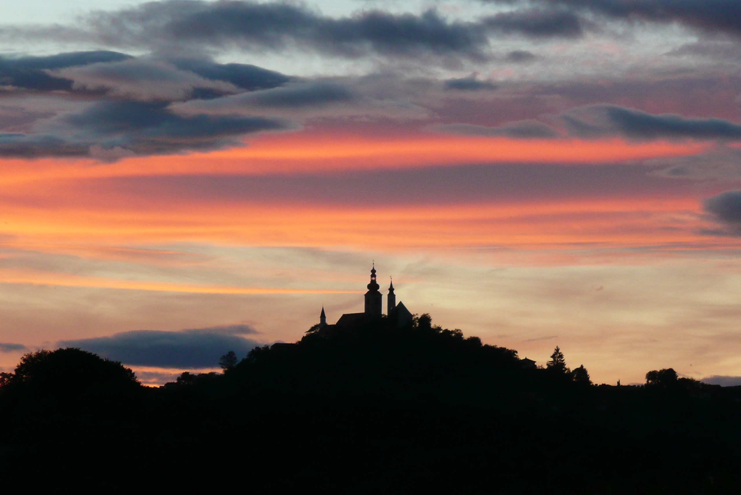 Straden (Styria) viewed a 2007 summer evening